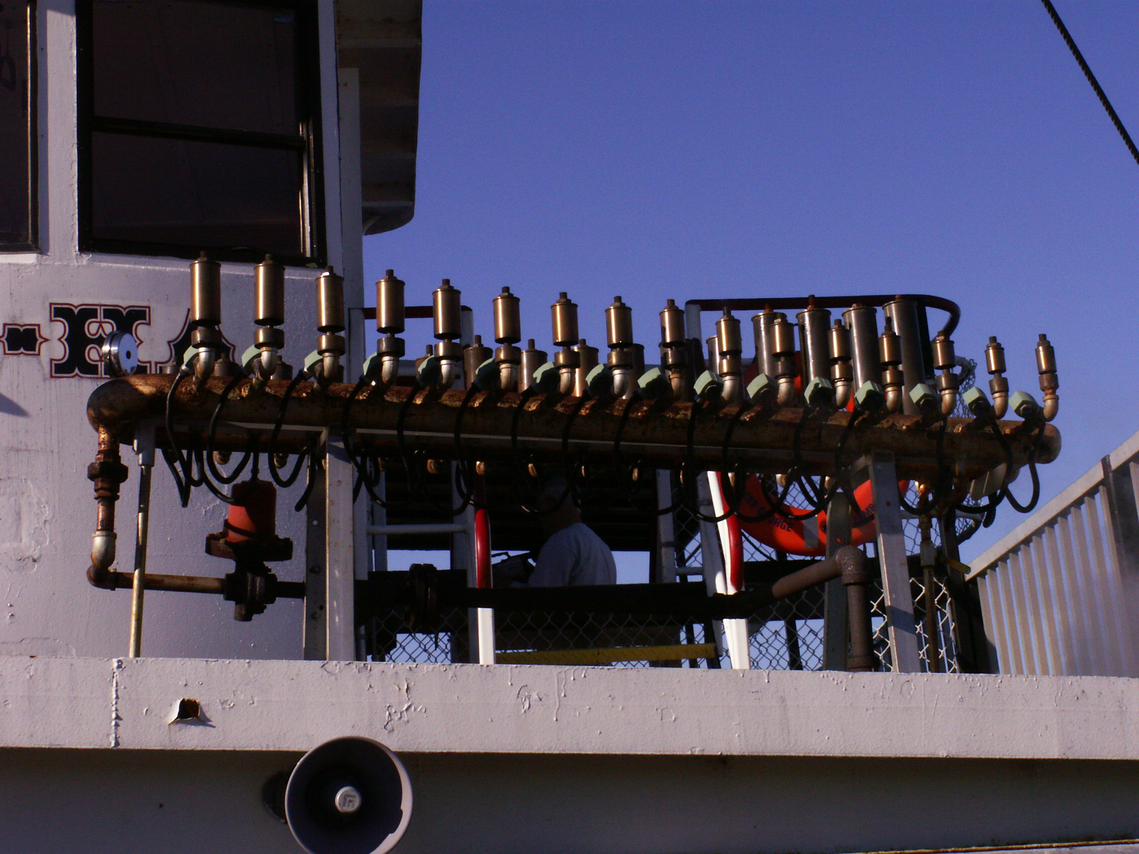 Calliope on the Minnie-Ha-Ha, a stern-wheeler on Lake George, NY